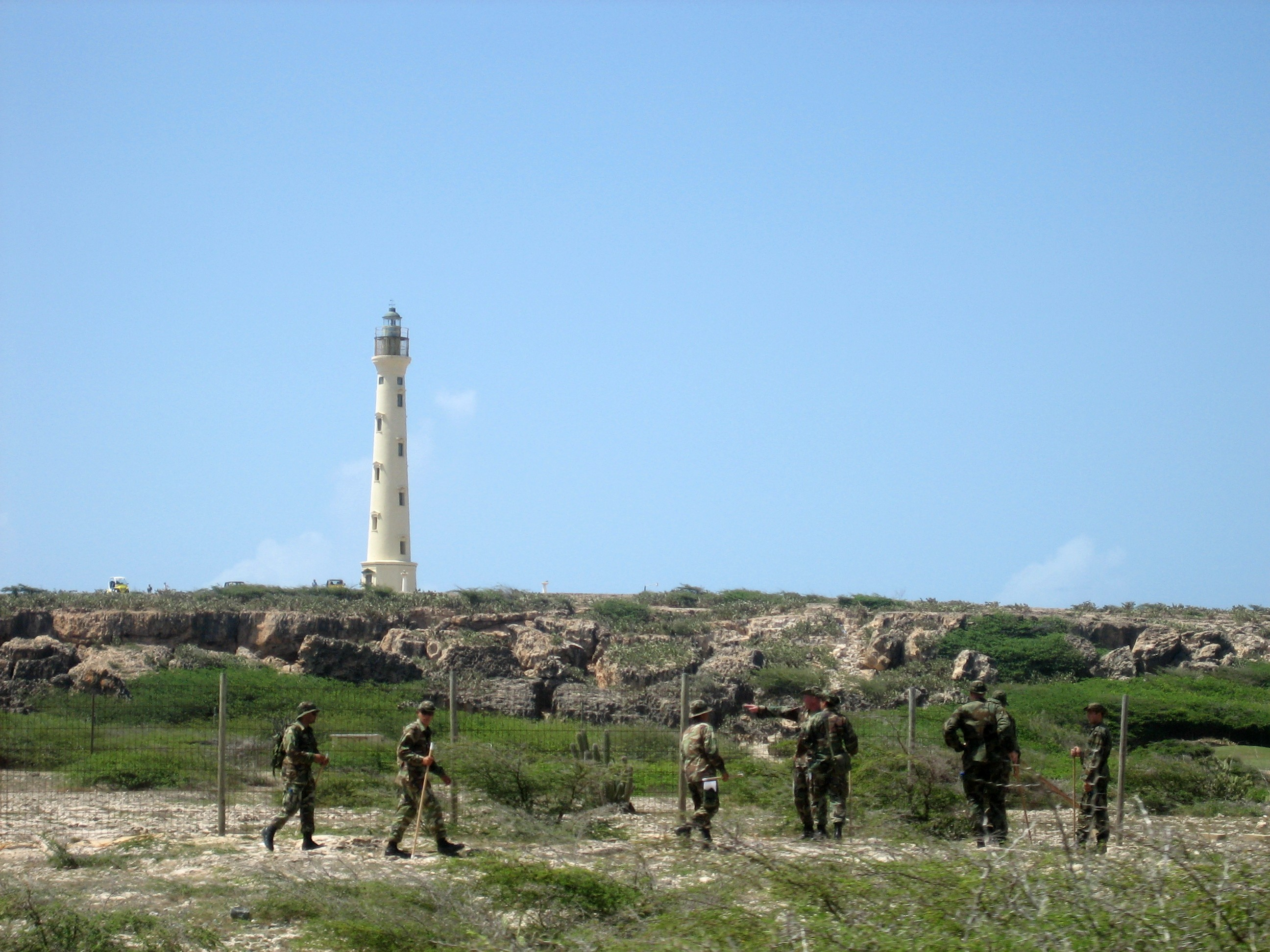 A shot of the California Lighthouse in Aruba, which includes the Natalee Holloway search party.